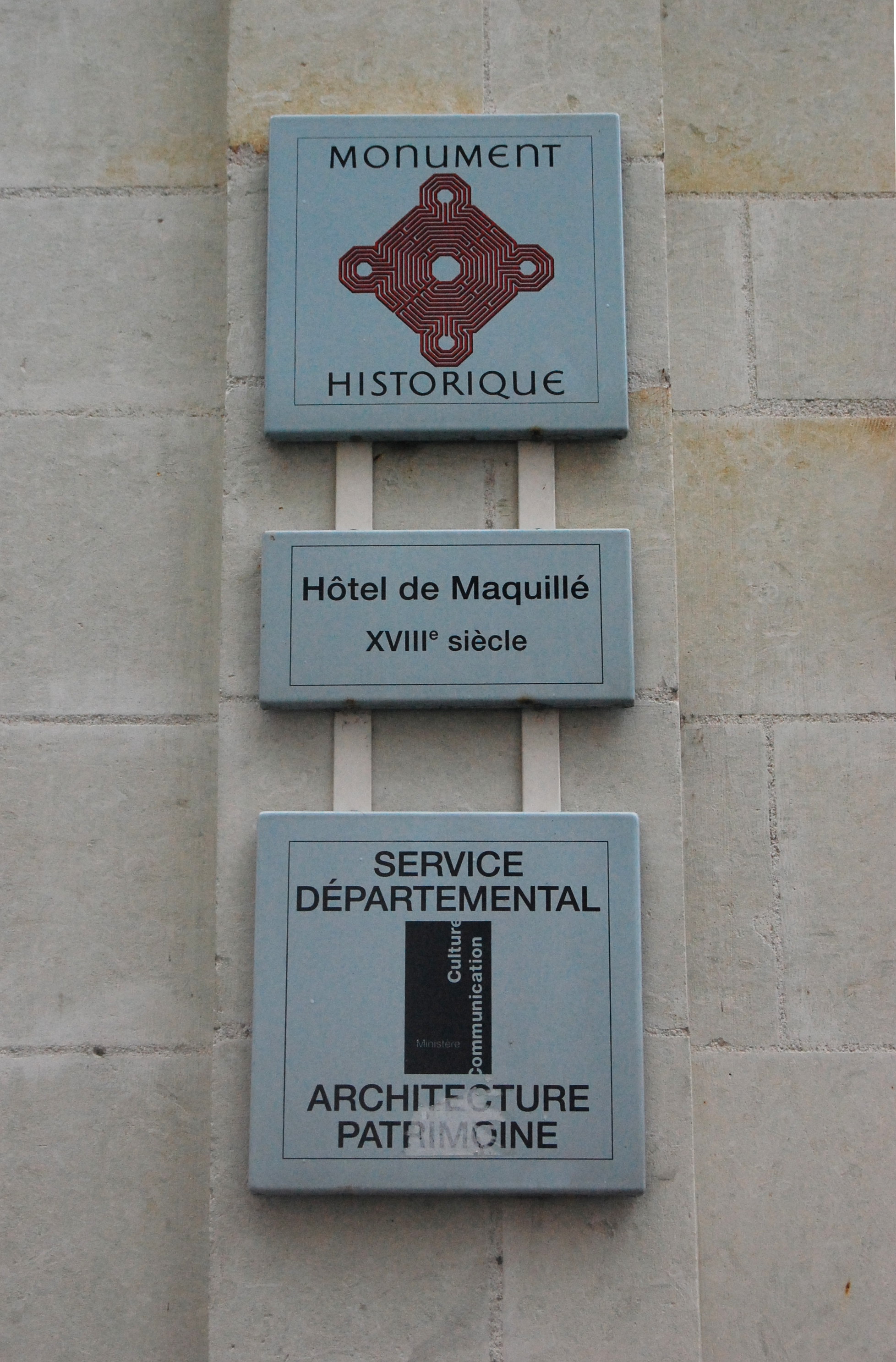 The Hôtel de Maquillé, in the city center of Angers.